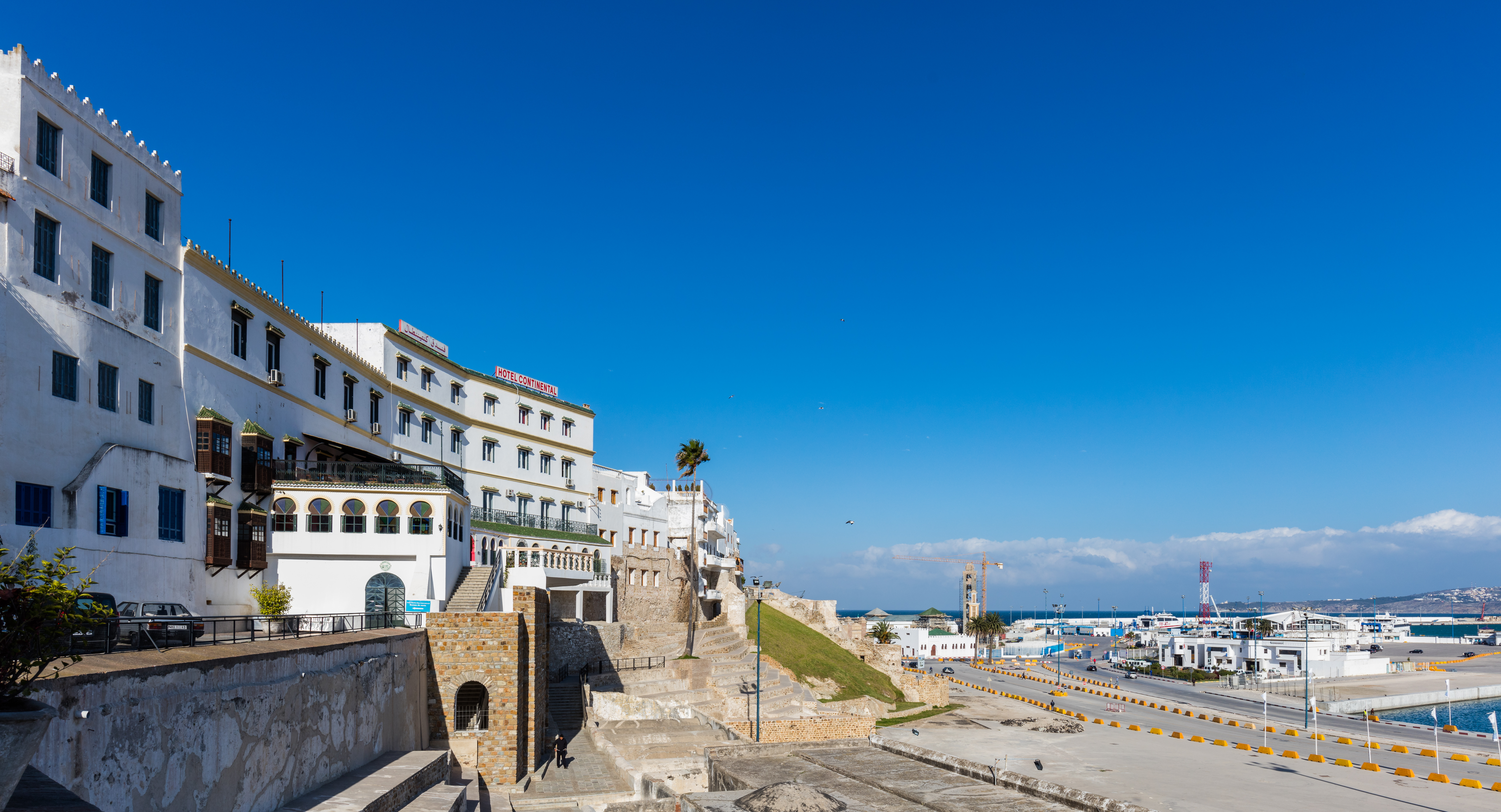 Continental Hotel, Tangier, Morocco